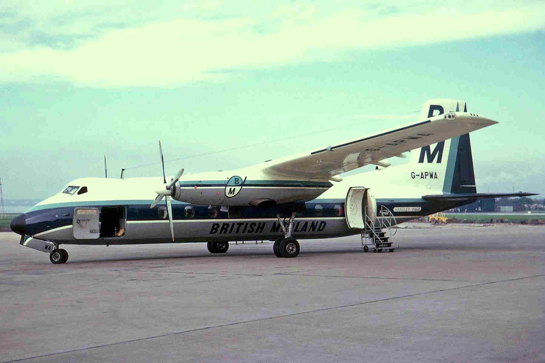 A picture of an airplane (name of it is on the file name).